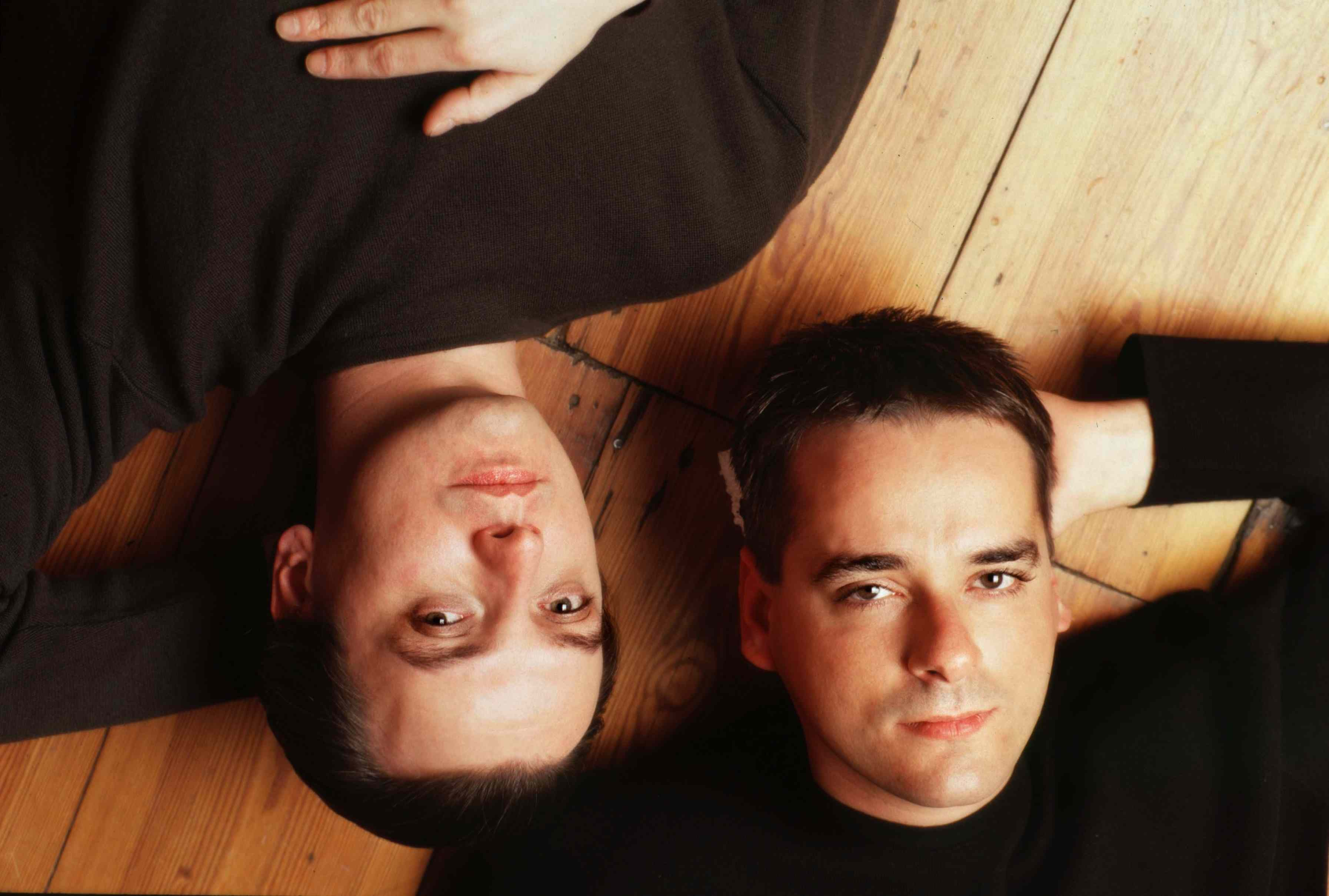 Left: Peter Heppner. Right: Band founder Markus Reinhardt